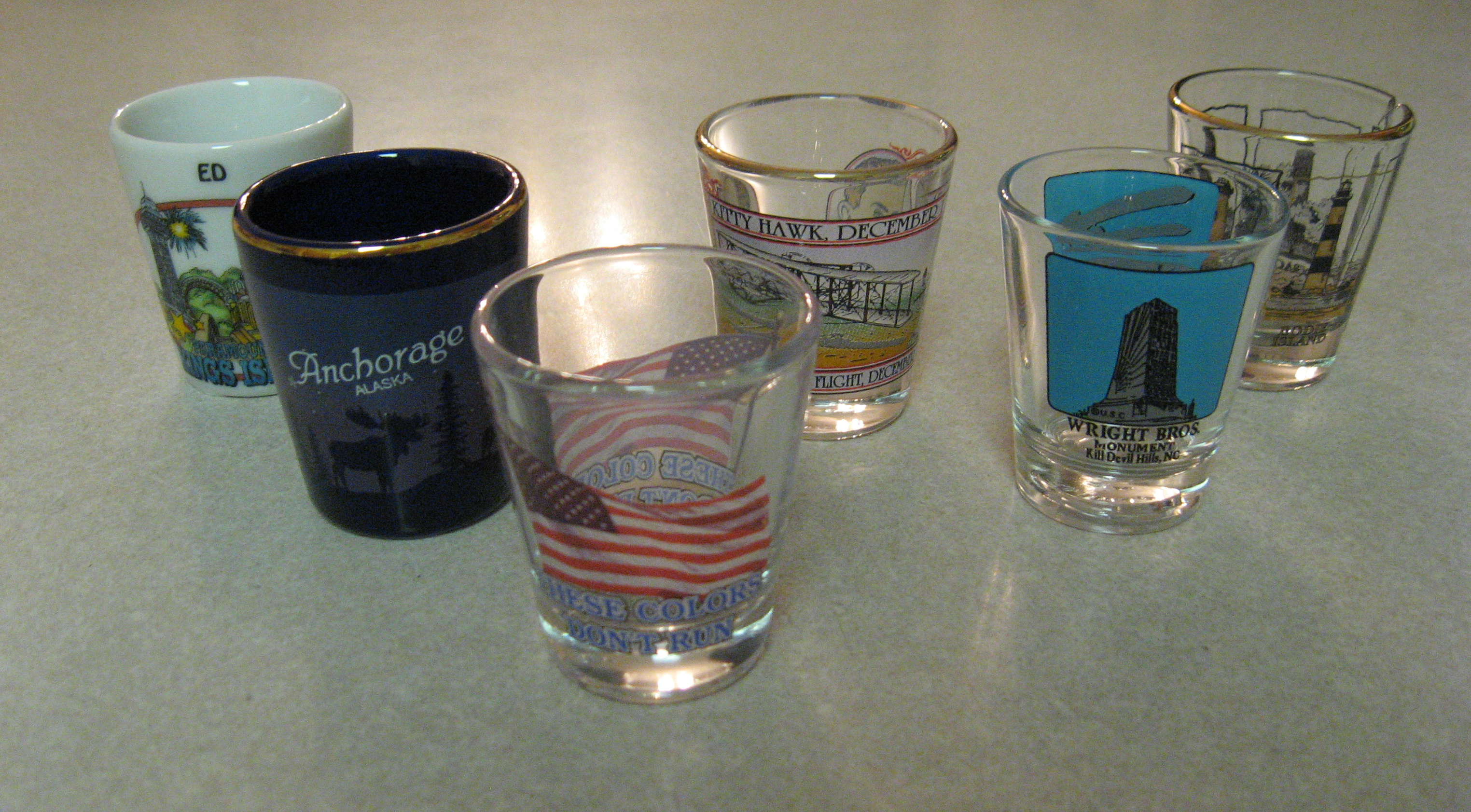 A variety of novelty shot glasses. Such shot glasses are often collected as novelty items. These shot glasses portray (from left): Paramount's Kings Island, Anchorage, an American Flag, Kitty Hawk, the Wright Brothers National Memorial, and several Lighthouses.